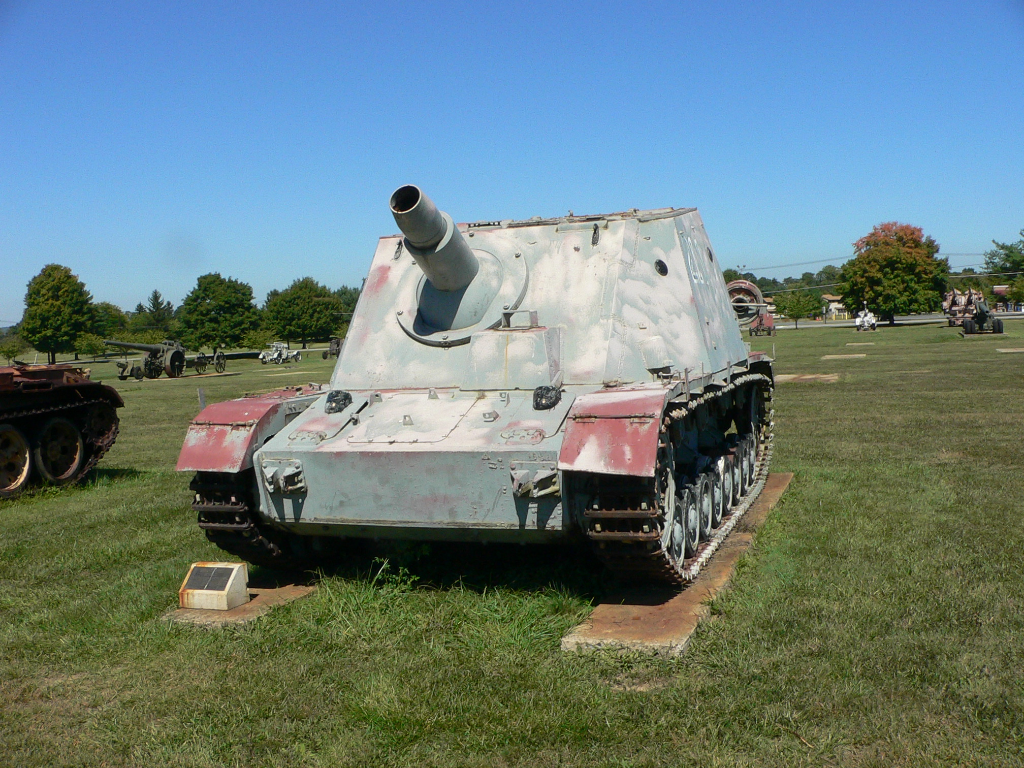 Picture taken by myself, Mark Pellegrini, at the United States Army Ordnance Museum (Aberdeen Proving Ground, MD)